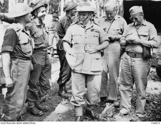 New Guinea. October 1942. General Sir Thomas Blamey, Commander Allied Land Forces, chats informally with Australian troops during his tour of inspection with US General Douglas MacArthur. US journalists (right) take a keen interest.